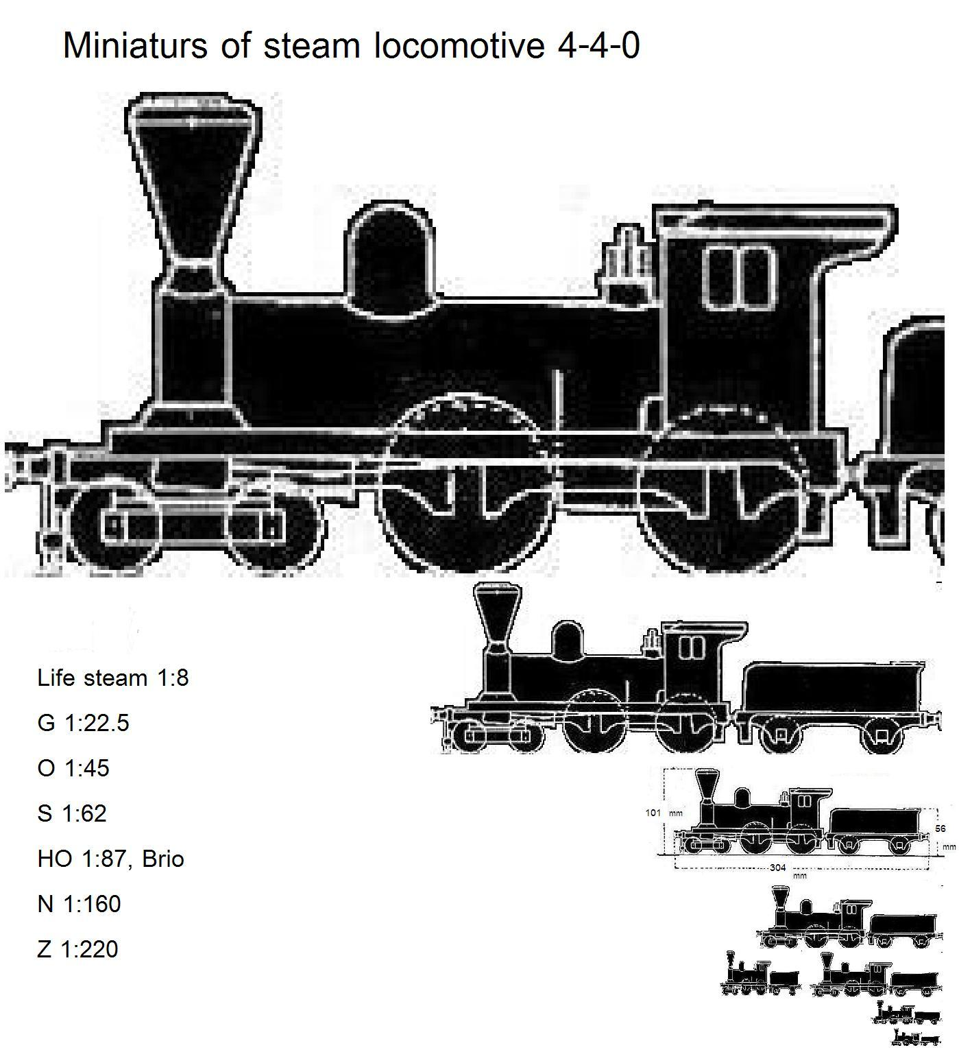 Main train scales diagram represented by a typical 4-4-0 steam locomotive